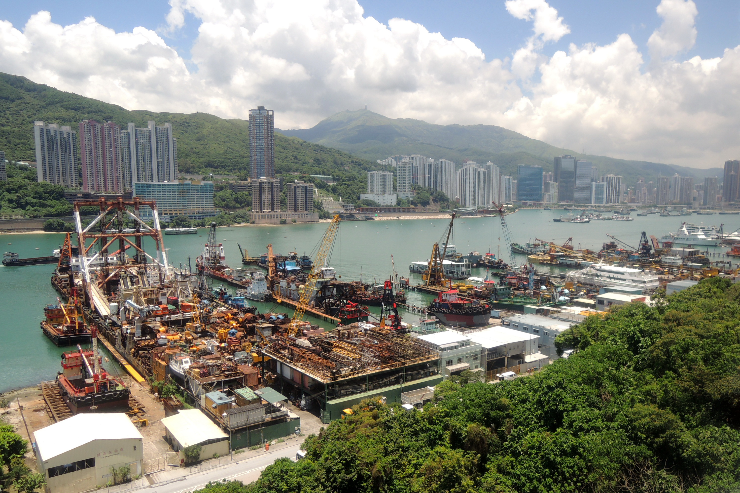 Hong Kong Shipyard, Tsing Yi, Hong Kong.